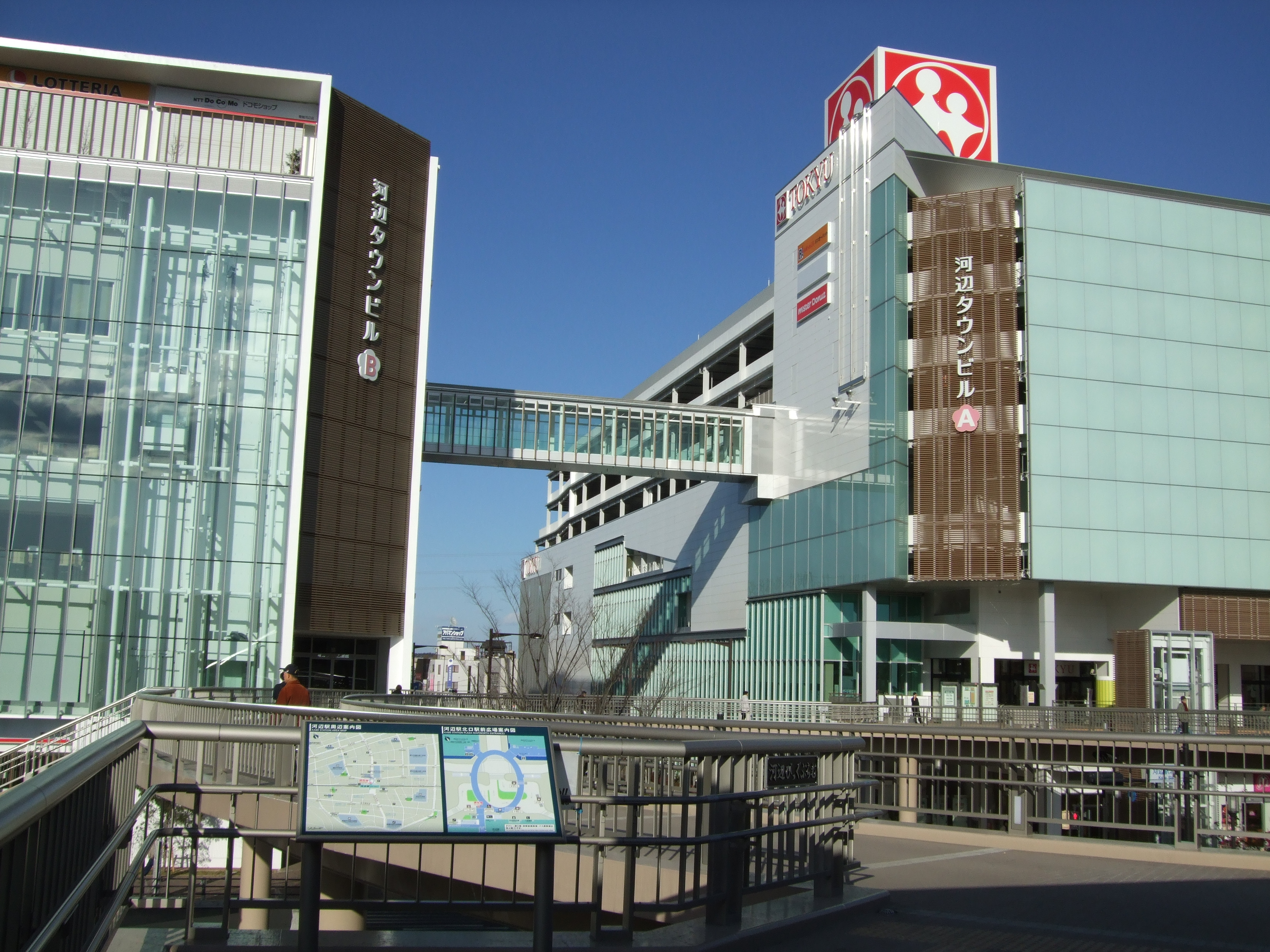 The view of the place near Kabe station.